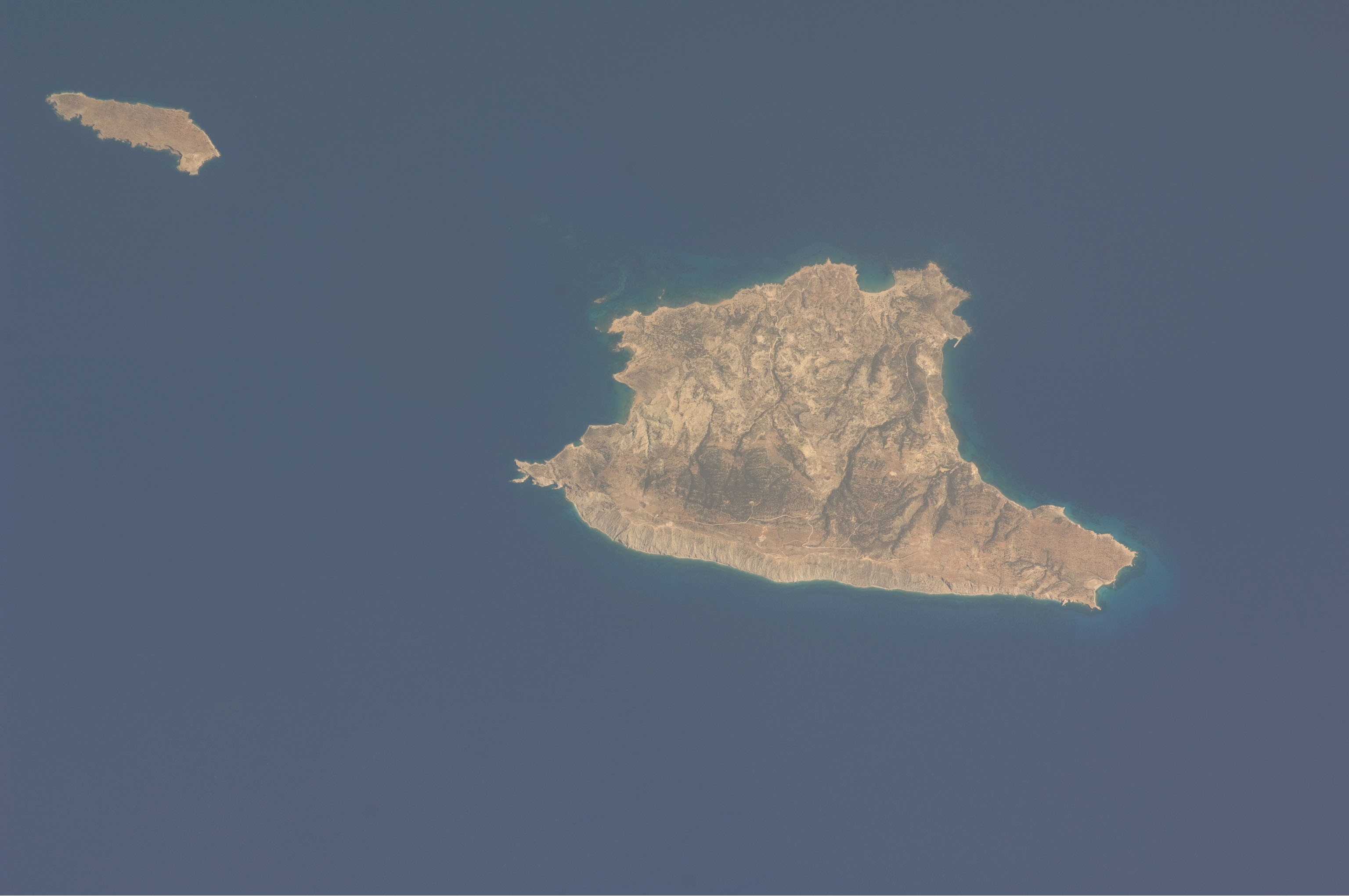 Mission: ISS017 Roll: E Frame: 12892 Mission ID on the Film or image: ISS017 Country or Geographic Name: CRETE Features: GAVDOPOULA I.,GAVDOS I. Center Point Latitude: 34.8 Center Point Longitude: 24.1 (Negative numbers indicate south for latitude and west for longitude) Image Science and Analysis Laboratory, NASA-Johnson Space Center. "The Gateway to Astronaut Photography of Earth." (10/03/2009 17:27:00) . Send questions or comments to the NASA Responsible Official at Curator: Earth Sciences Web Team Notices: Web Accessibility and Policy Notices, NASA Web Privacy Policy Last Update: 09/20/2007 00:08:27